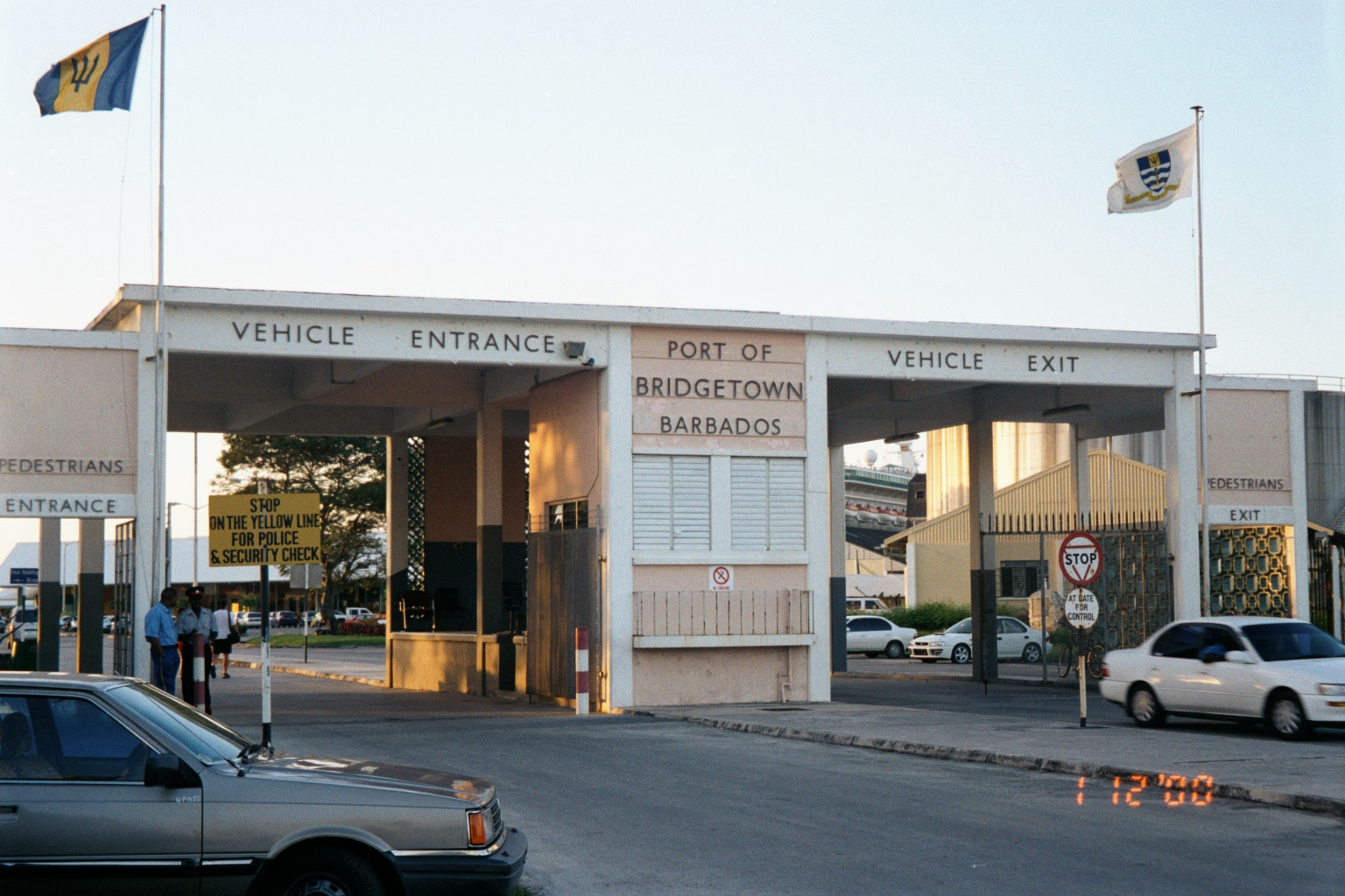 One of the gatehouses to the Deep Water Harbour. It is located along the Princess Alice Highway in Bridgetown, Barbados. (c.a. November 2000) Note: A docked cruise-ship is visible through the "exit" gate.